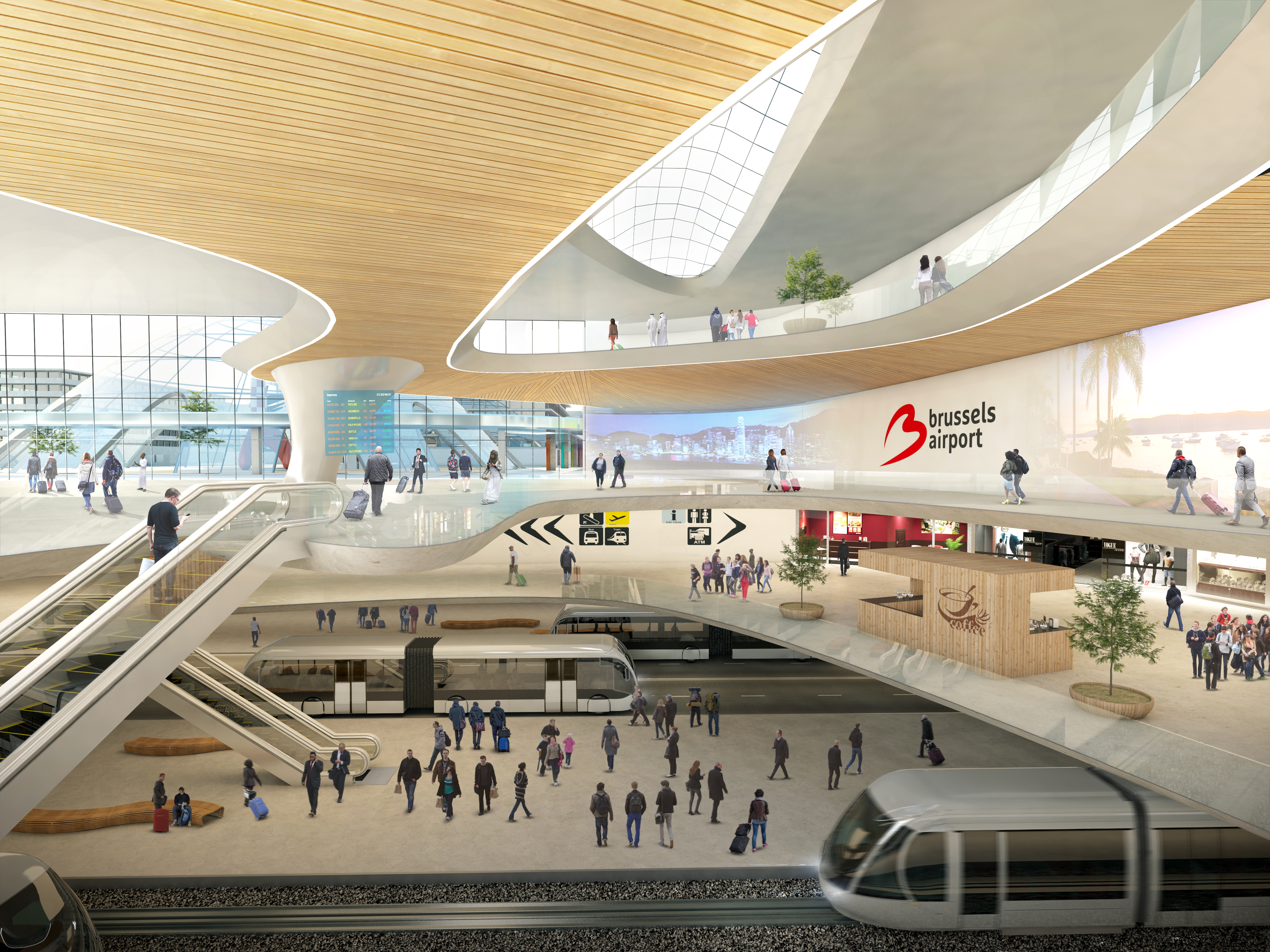 Brussels Airport Strategic Vision 2040